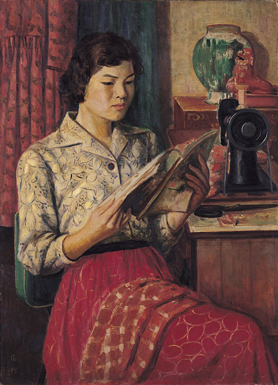 To chant students Ami as a model, which can be seen from the work of Li Mei tree space arrangement for the careful.